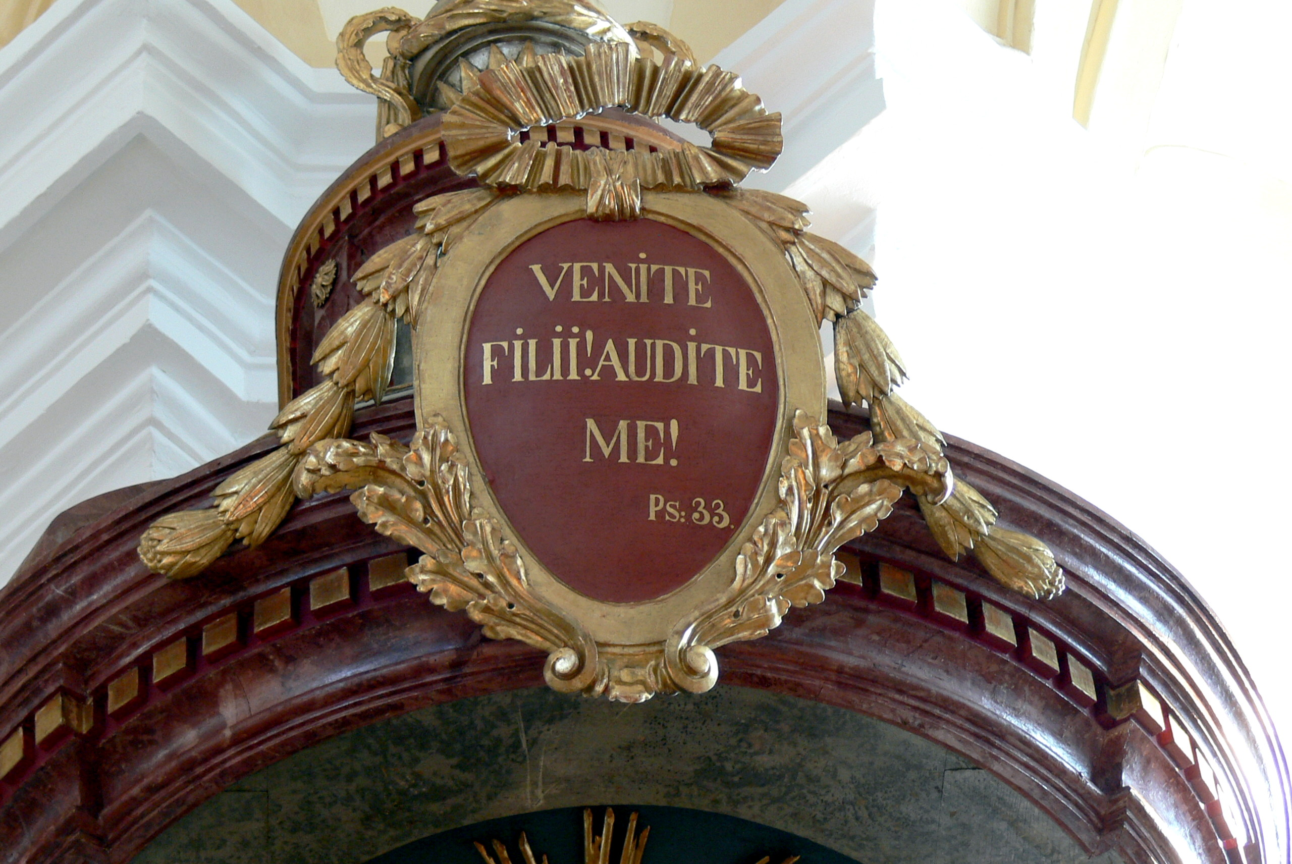 Peilstein ( Upper Austria ). Ss. Giles and Leonard parish church - Neoclassical pulpit ( 1789 ): Psalm 33:12 (Vulg.) = Psalm 34:12 (Hebr.) "Come, sons! Hear me!"